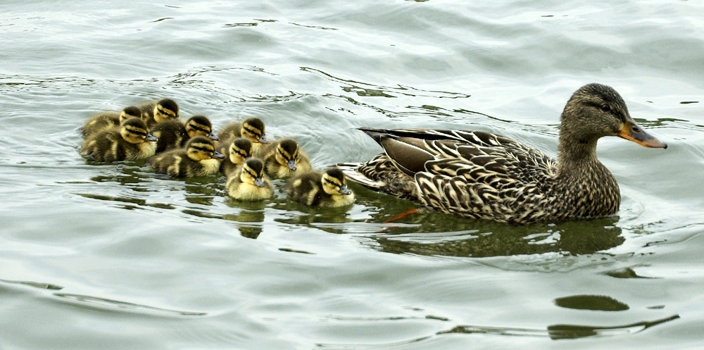 Cruising the pond... 10 ducklings w/Mom DuckMomma Duck Leads The Way